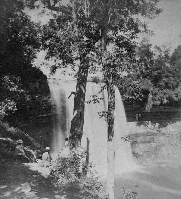 Minnehaha Falls, before 1900.